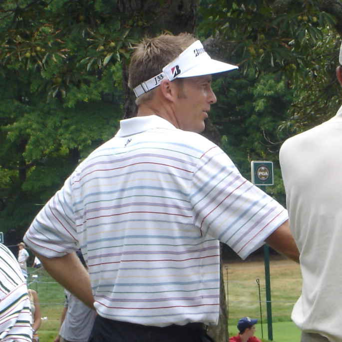 Stuart Appleby during a practice round at the 2005 PGA Championship, Baltusrol